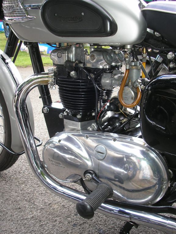 Another classic "mill" from days gone by! This time a single cylinder OHC engine with simple Amal carburettor.